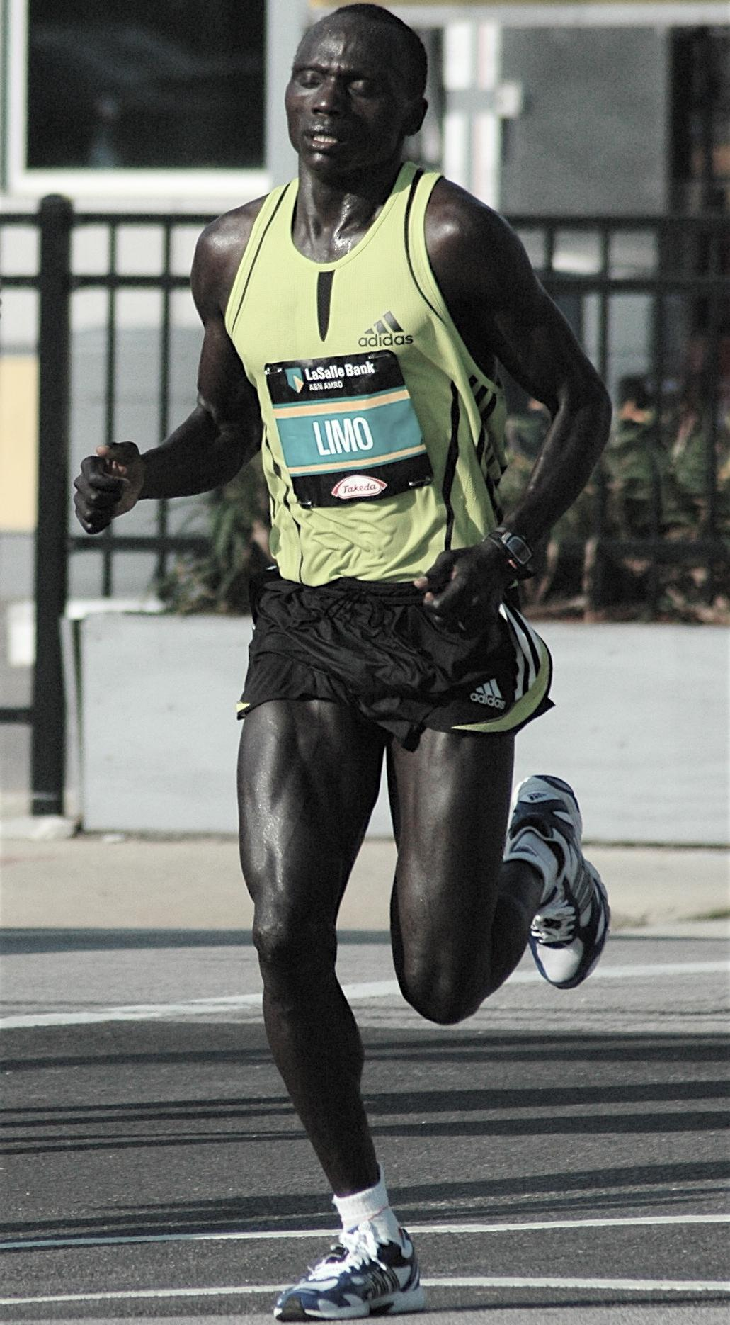 Felix Limo during 2007 Chicago Marathon